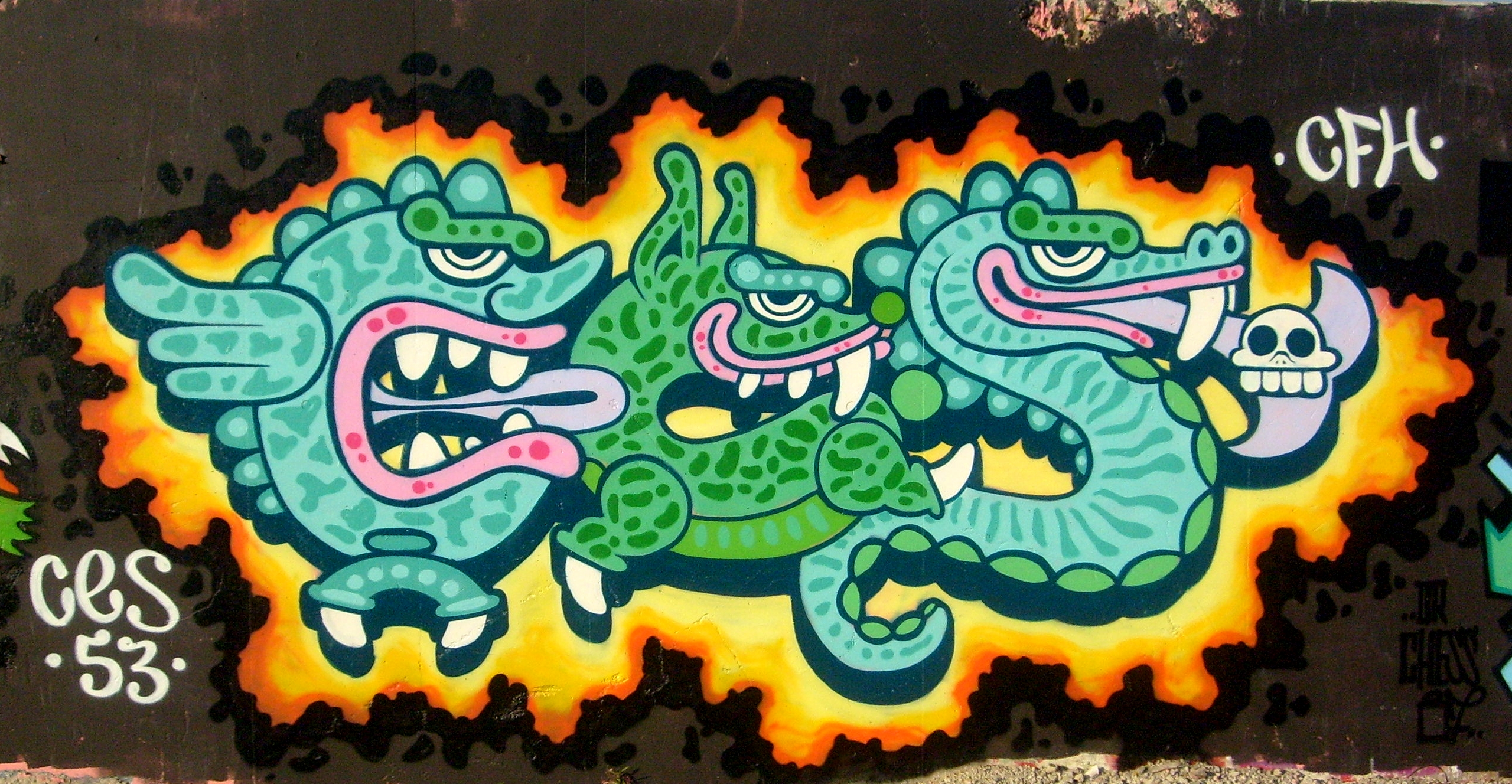 Street art Graffiti painting by Ces53